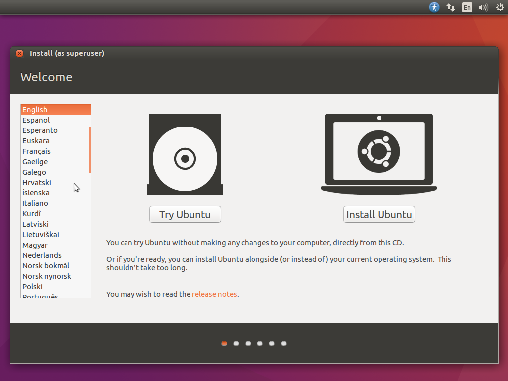 Screenshot of Ubuntu 16.04 Live DVD